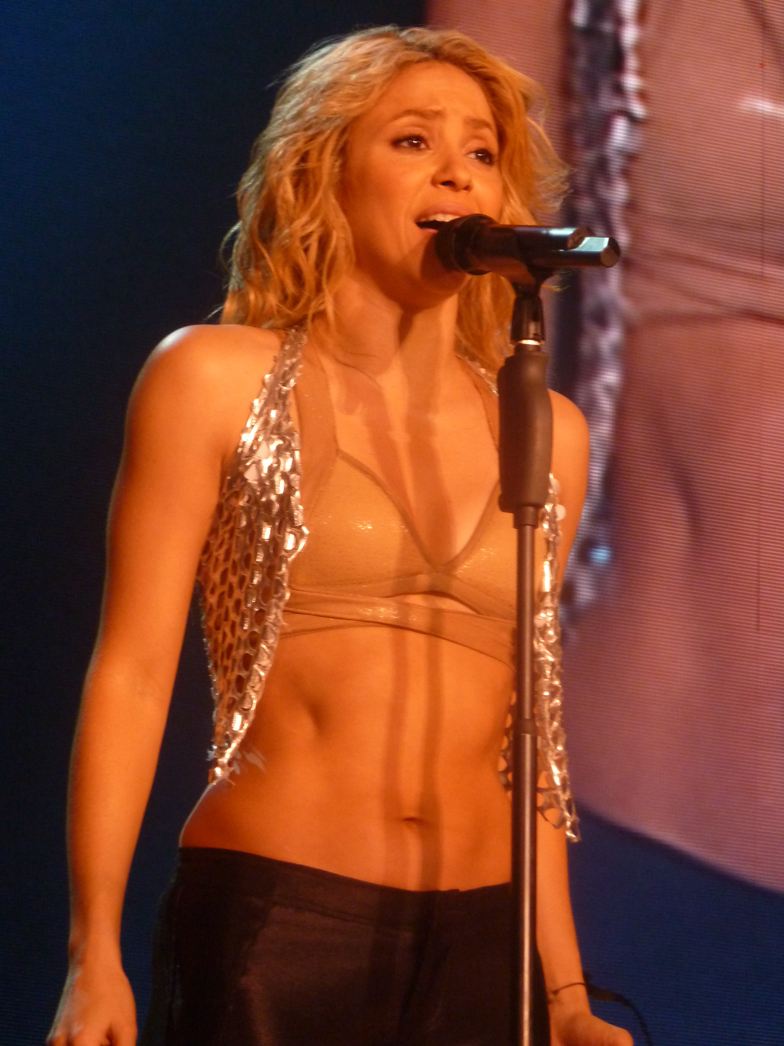 Shakira in concert in Palais Omnisports de Paris-Bercy, Paris in 2010.